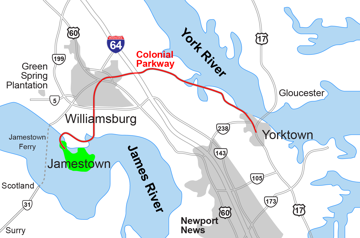 Replacement map for JPEG version. Drawn by Hal Jespersen in Macromedia Freehand. Graphic source file is available at